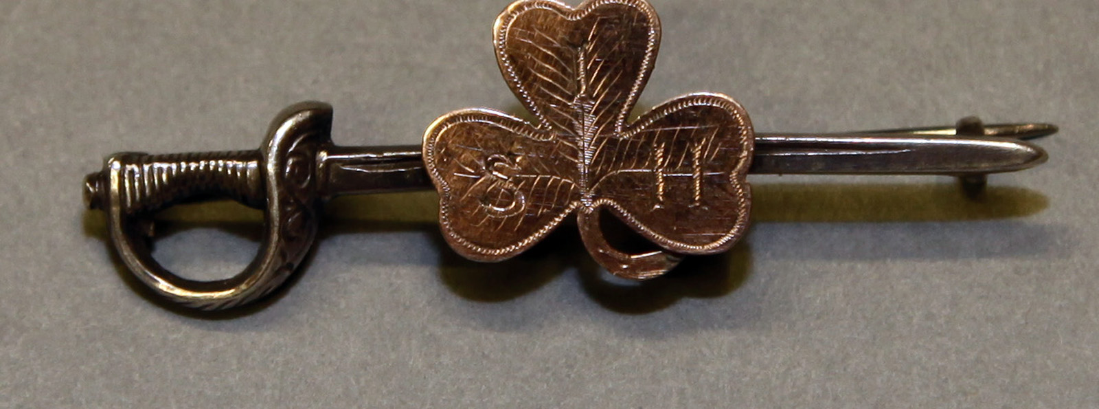 These items belonged to my grandfather, Thomas Holligan, who served in the South Irish Horse Regiment as a blacksmith from 1913 to 1919. The first item is a pin with the emblem of the South Irish Horse Regiment. These were called "sweetheat pins". This would have been sent to our grandmother while our grandfather was serving in France.